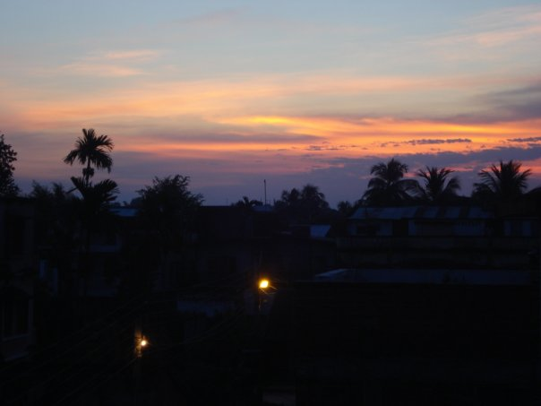 Sunrise in Biratnagar as seen from my house.